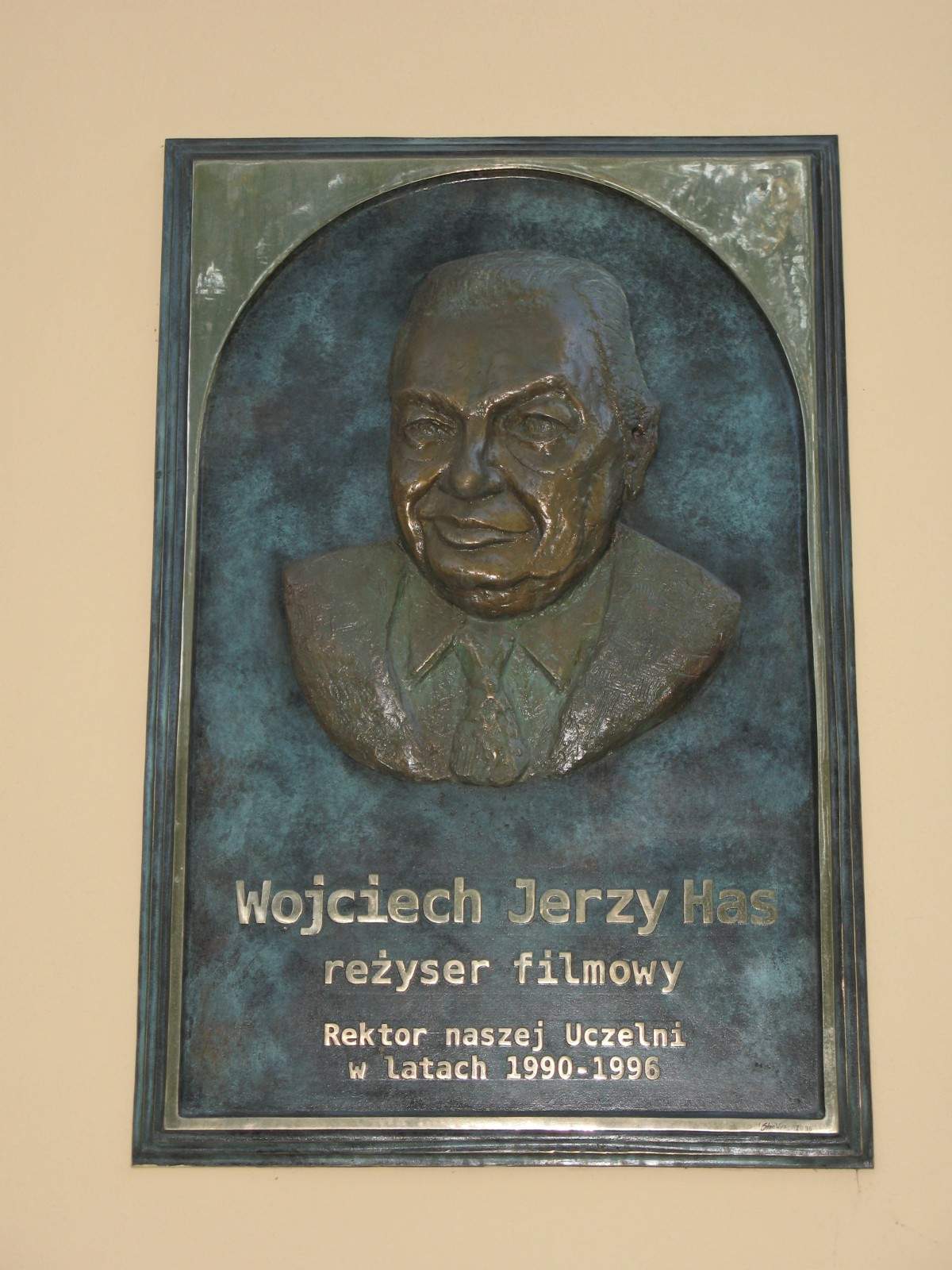 Plate dedicated to polish director Wojciech Jerzy Has, at Filmschool building in Łódź